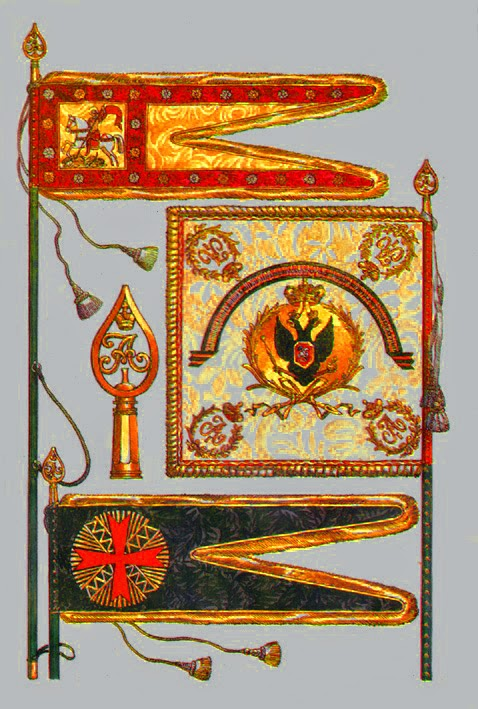 Flag of Bunchuk Cossack troops